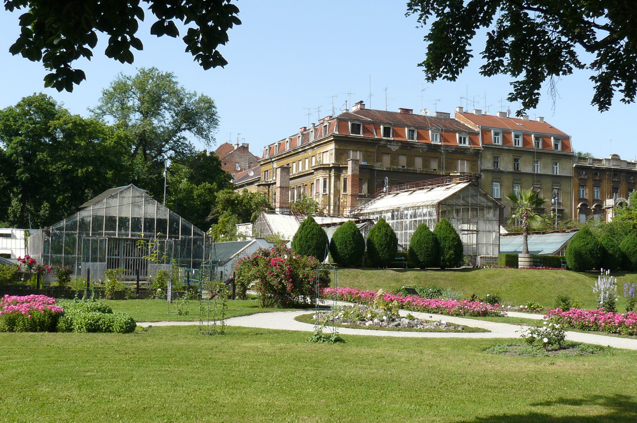 Botanical Garden Zagreb.